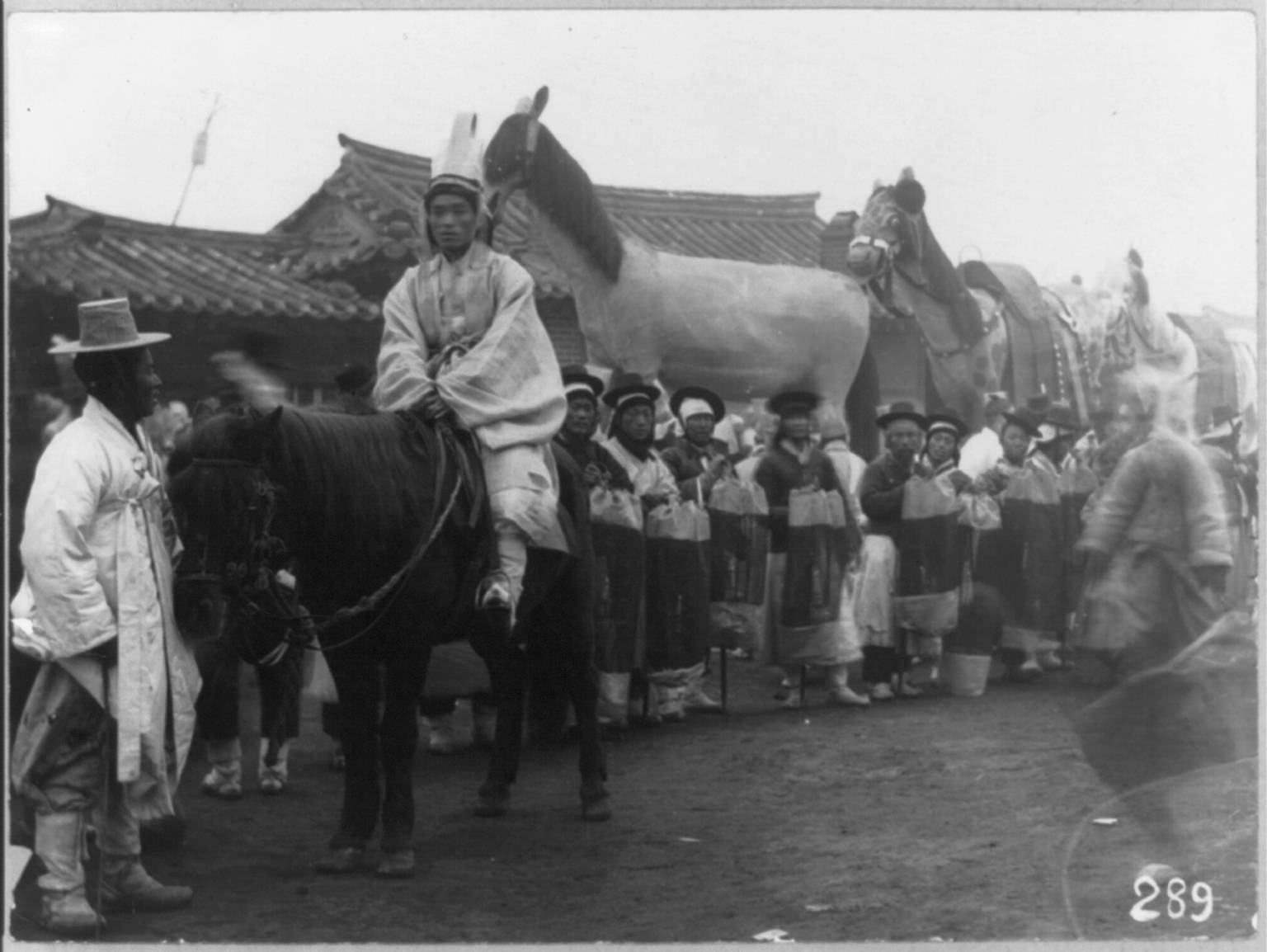 Funeral Procession Empress Myeongseong 1897 Empire of Korea